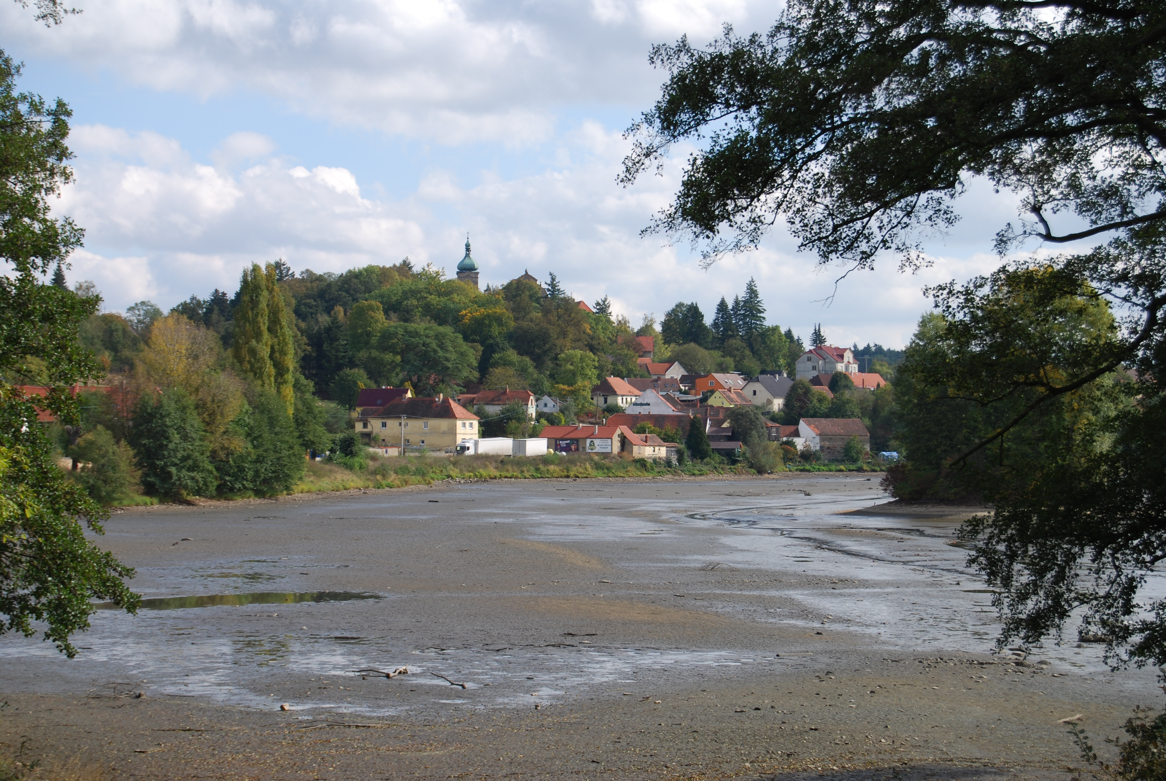 Podhájč pond in Lnáře town, Strakonice District, Czech Republic.